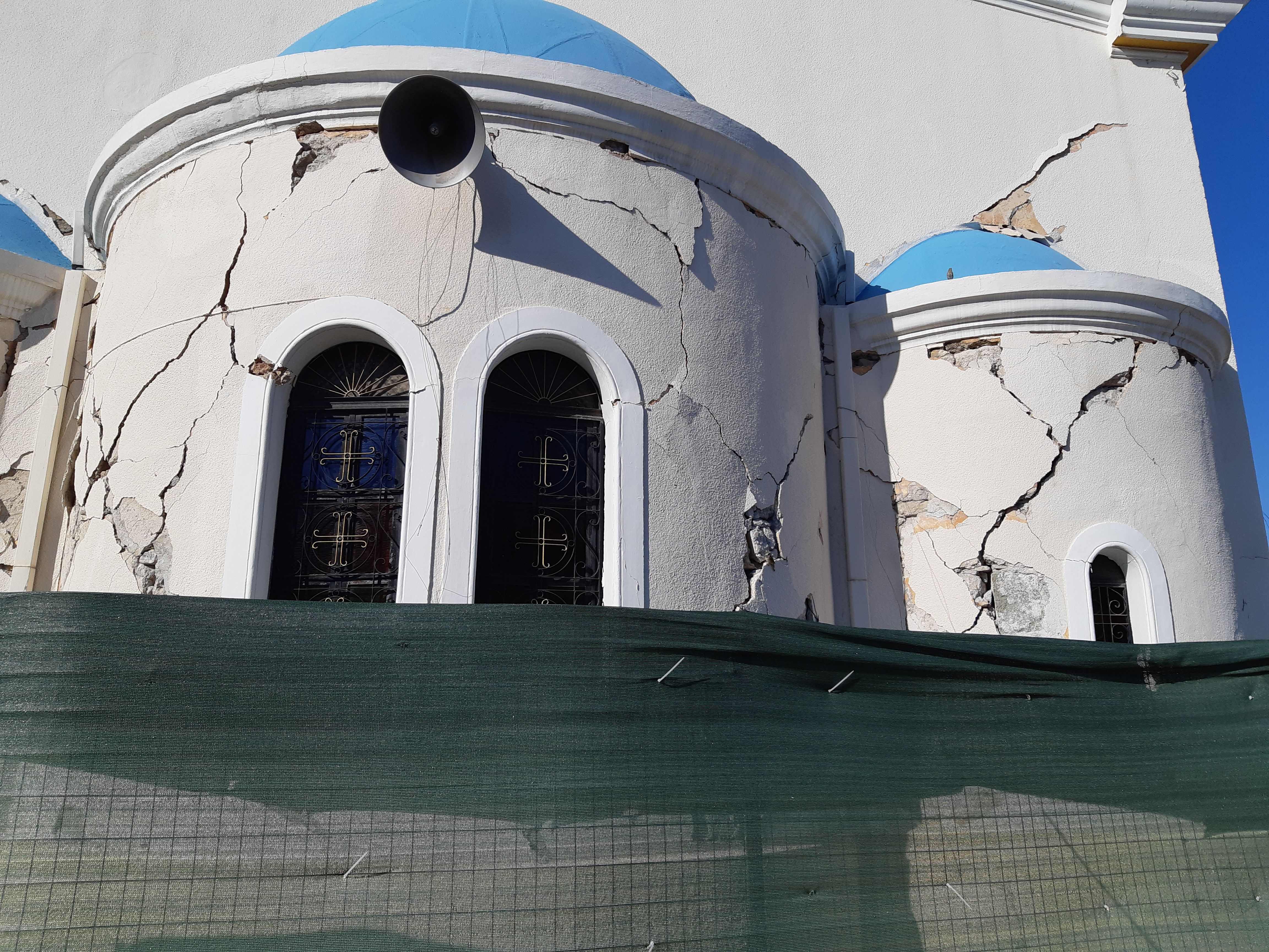 Church "Agia Paraskevi" (St. Paraskevi) of the city of Kos on the Greek island of Kos. Church after the 2017 earthquake. To the south of the church is the Agia Paraskevi Park.